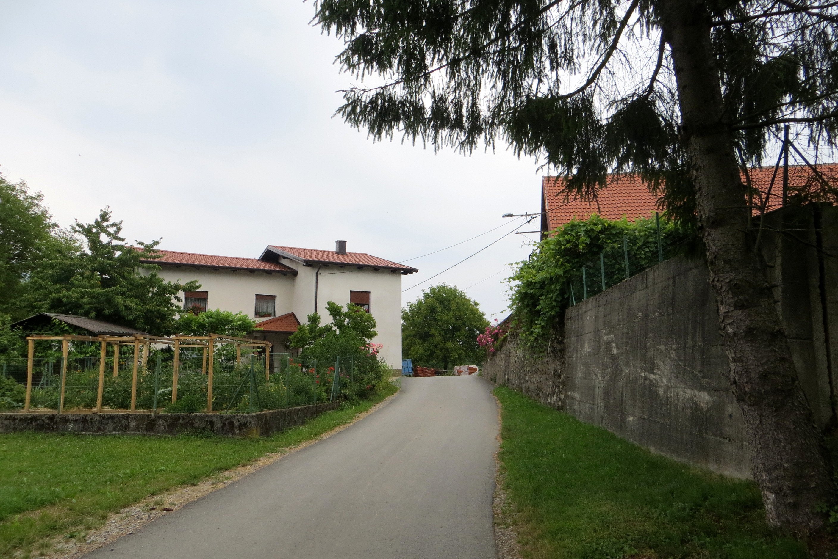 Velika Brda, Municipality of Postojna, Slovenia